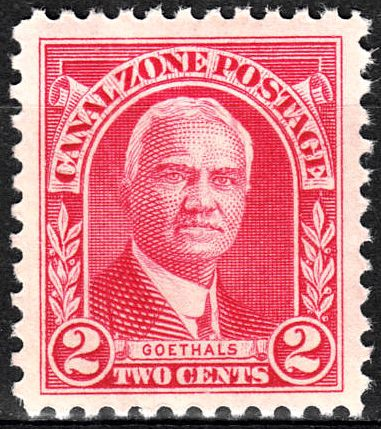 Canal Zone 2c-Gothals, 1928 Issue